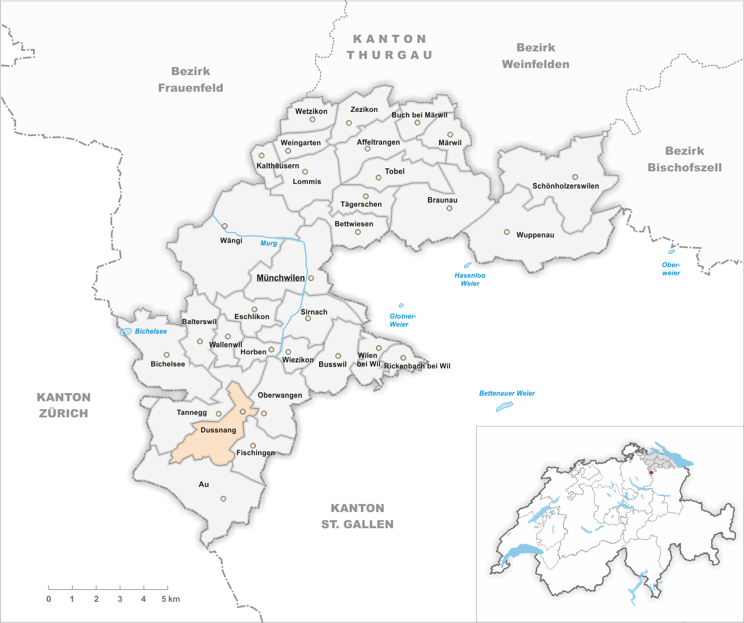 Municipality Dussnang